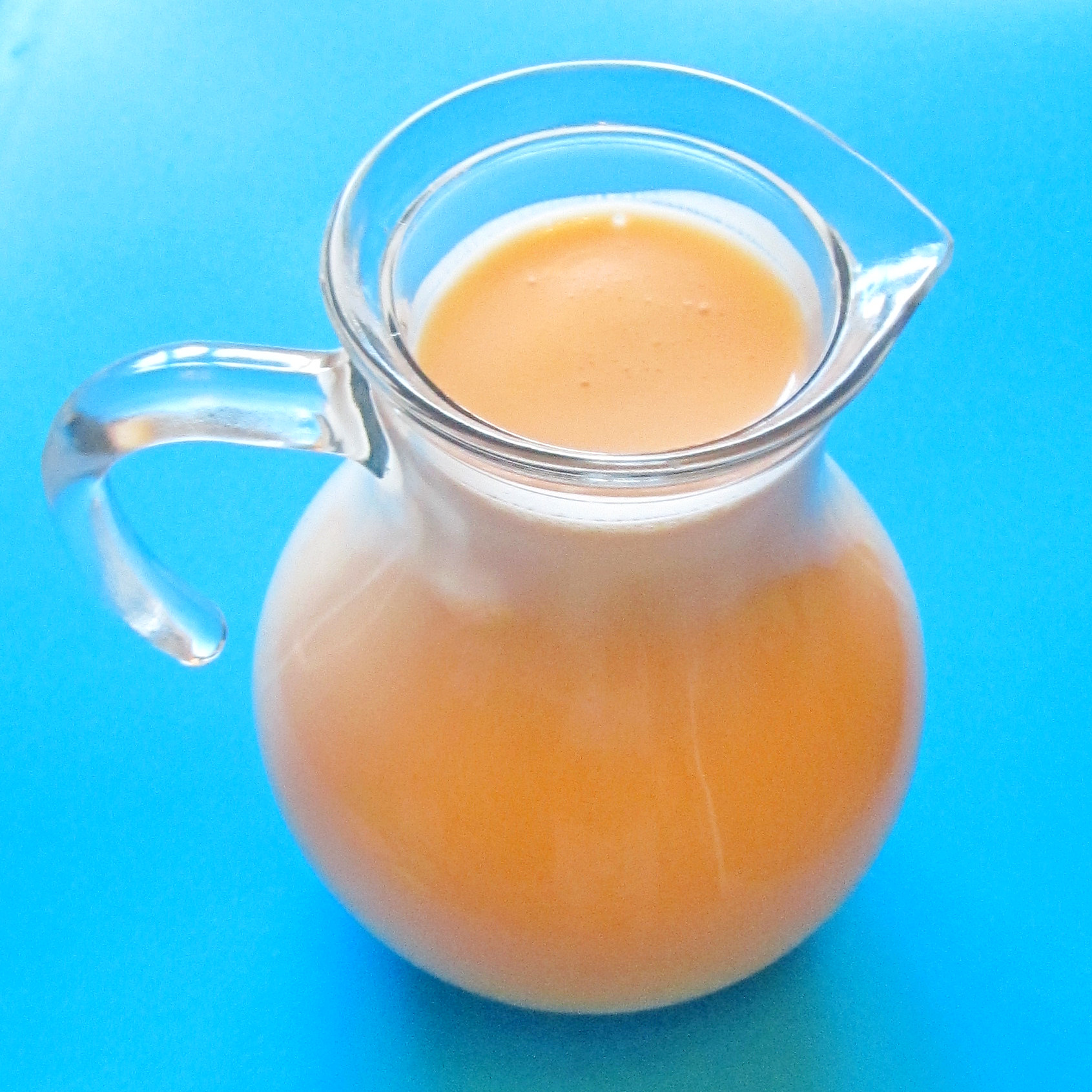 Buttermilk is a dairy drink. Originally, buttermilk was the liquid left behind after churning butter out of cultured cream. This type of buttermilk is now specifically referred to as traditional buttermilk and the fermented dairy product is known as cultured buttermilk.